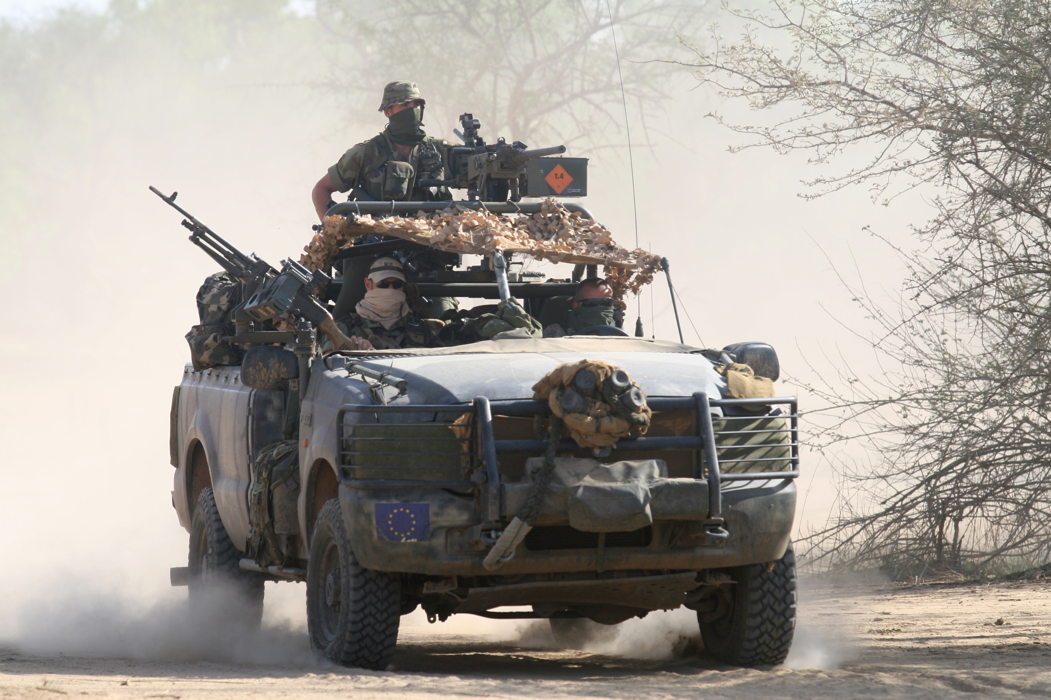 Irish Army Ranger Wing (ARW) Special Reconnaissance Vehicle (SRV) patrol in Chad as part of the European Union Force Chad/CAR (EUFOR Tchad/RCA).